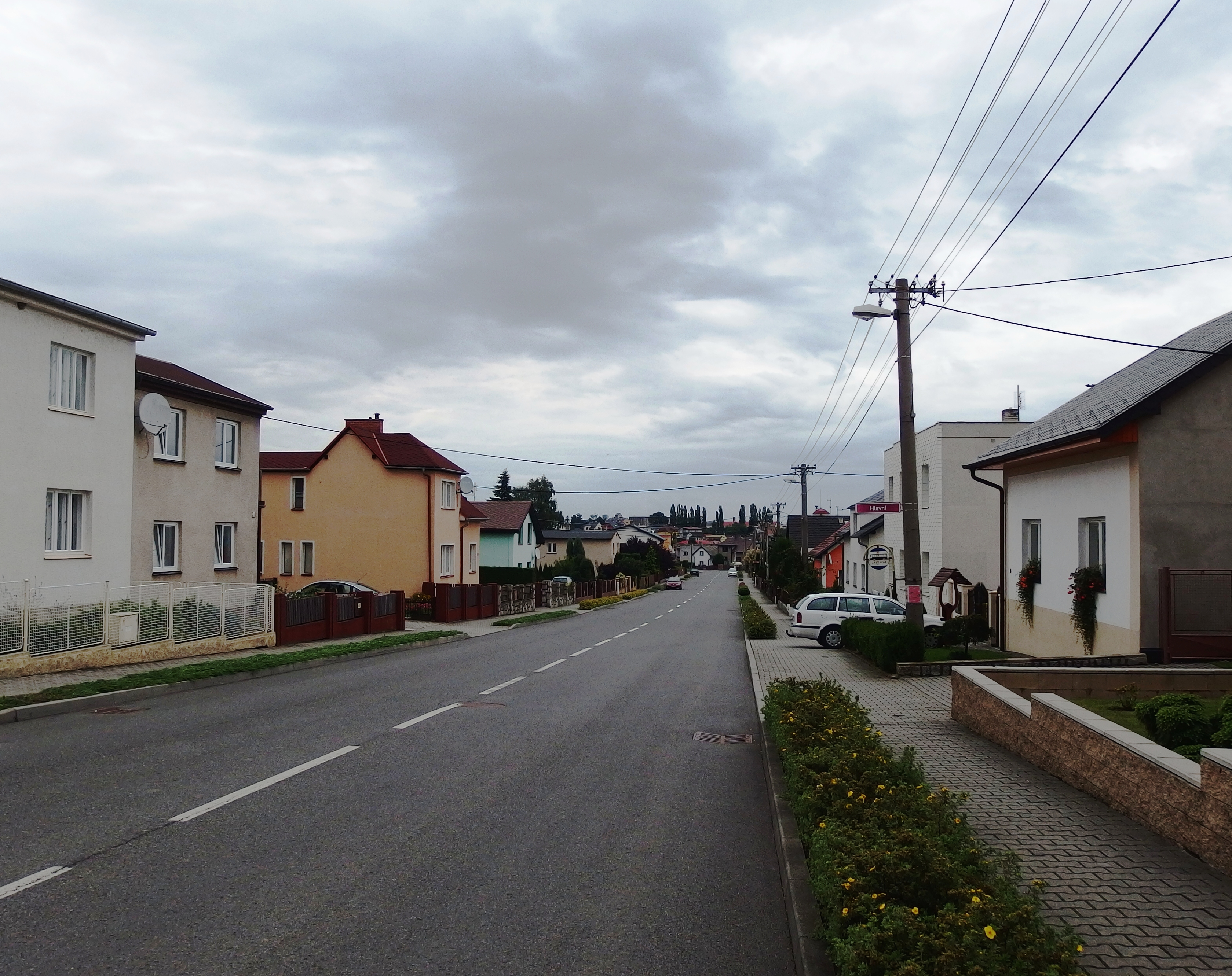 Chlebičov, Opava District, Czech Republic.